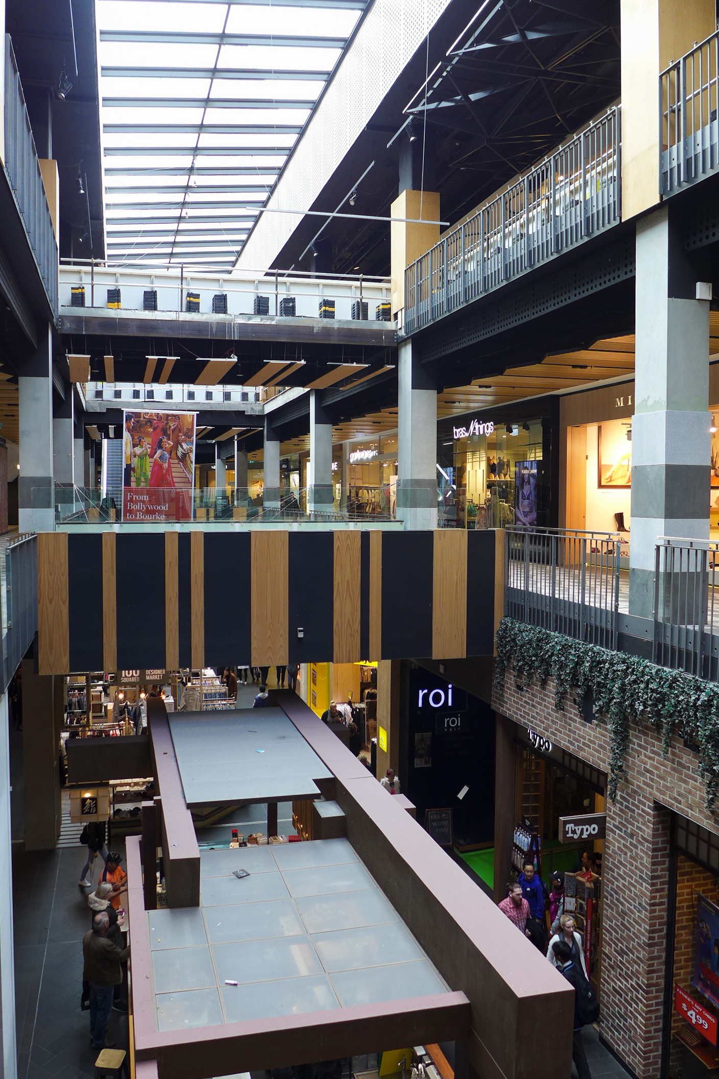 Melbourne Central Shopping Centre Void